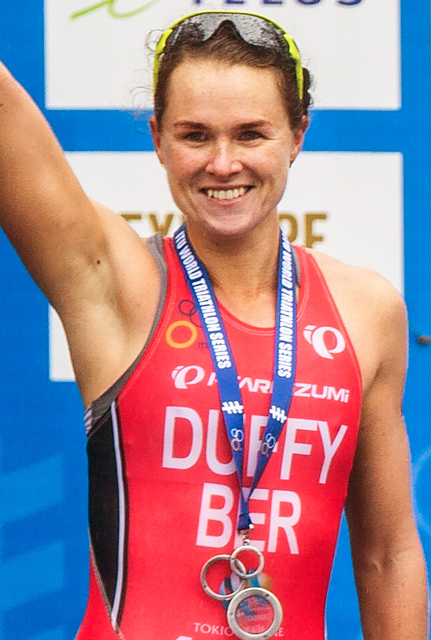 Flora Duffy World Triathlon Series Tour 2015 - Edmonton